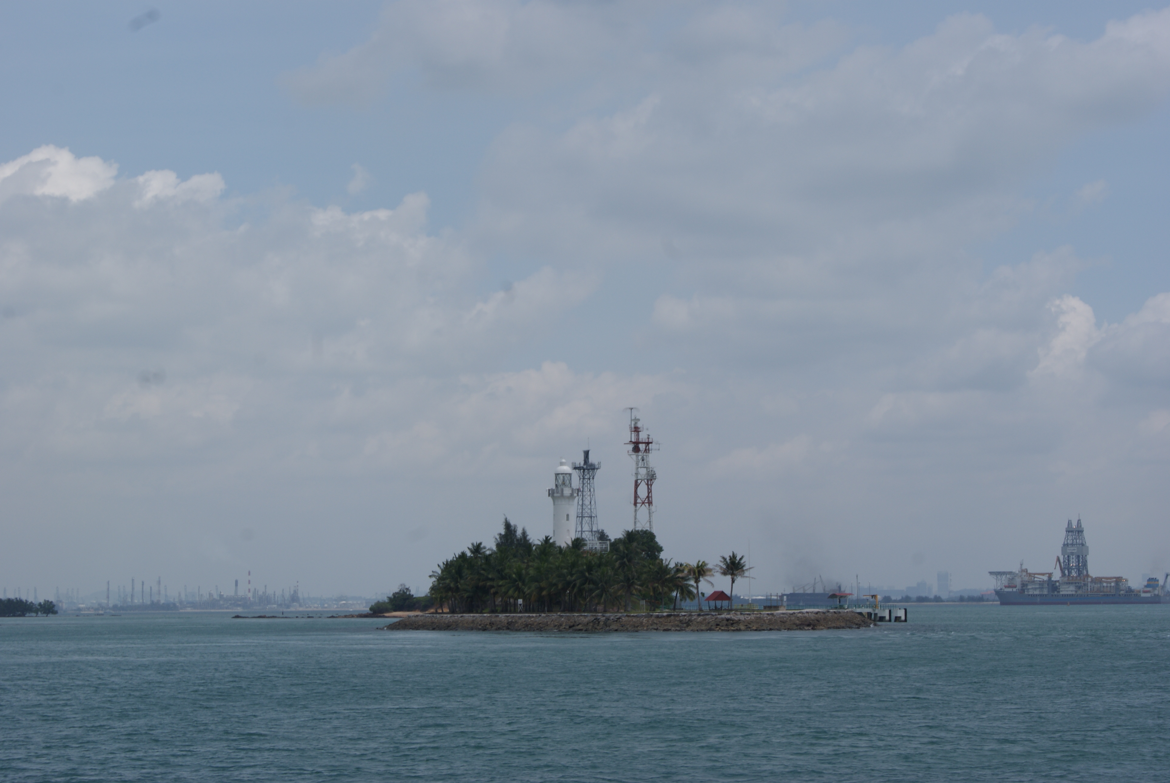 Pulau Satumu, Singapore's southernmost island, where Raffles Lighthouse is situated.